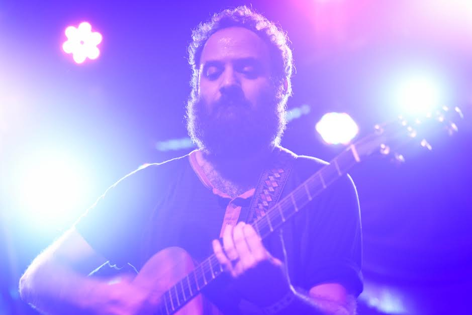 David Bronson performing live at Brooklyn Bowl in Williamsburg, Brooklyn. Photo by Mathew Amonson